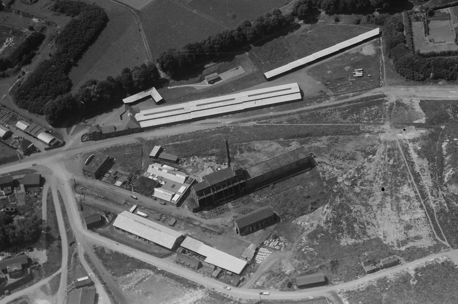 Aerial photograph of Maastricht, The Netherlands